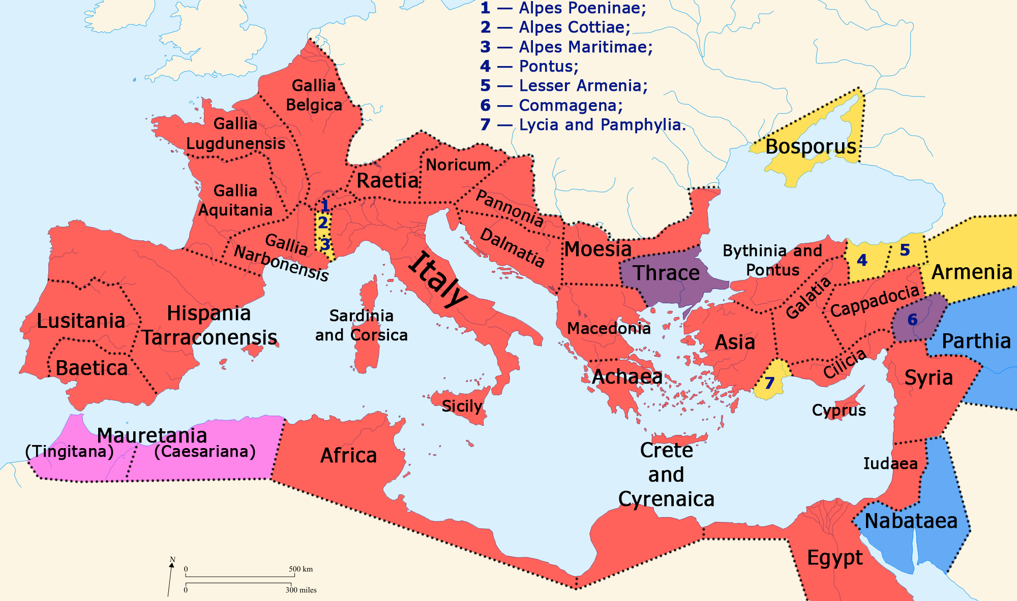 Map of the Roman Empire and neighboring states during the reign of Gaius Caligula (37-41 AD). Italy and Roman provinces Independent countries Client states (Roman puppets) Mauretania seized by Caligula Former Roman provinces Thrace and Commagena made client states by Caligula